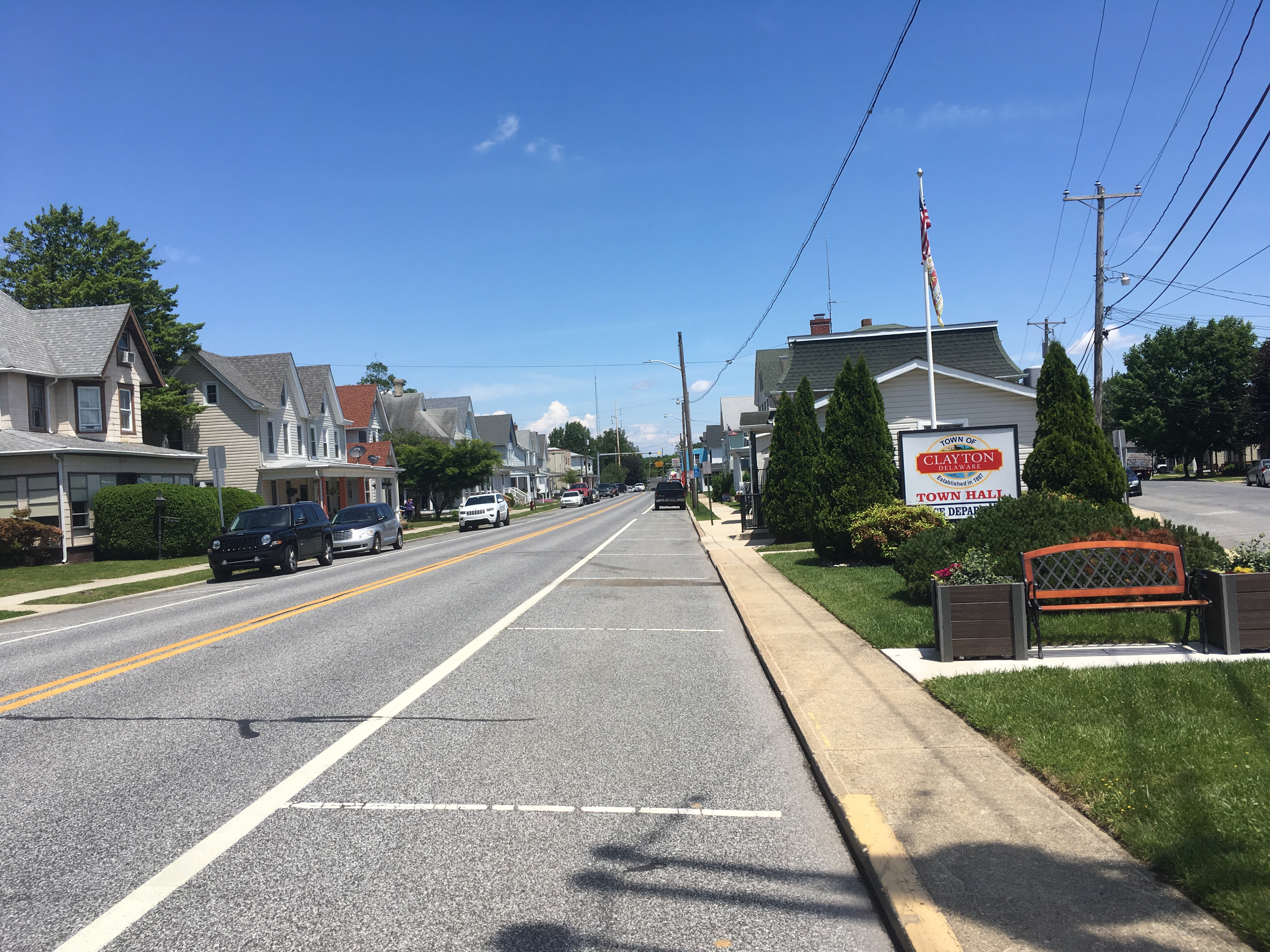 Eastbound Delaware Route 6 (Main Street) past the intersection with Smyrna Avenue in Clayton, Delaware